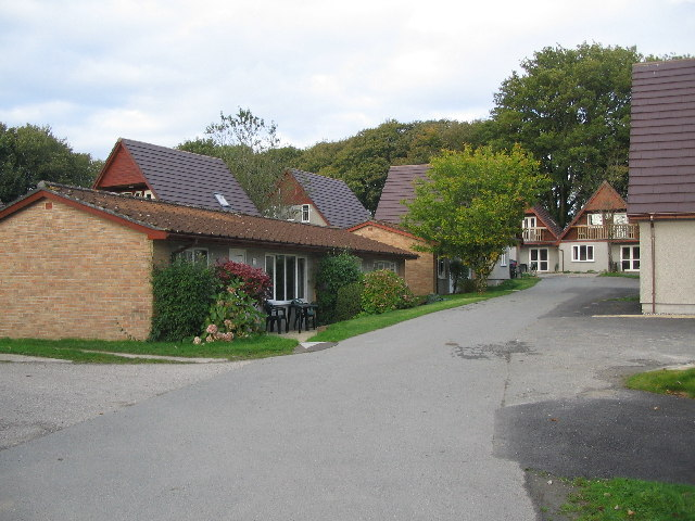 Hengar Manor. A view of some of the accommodation units at Hengar Manor Country Club.